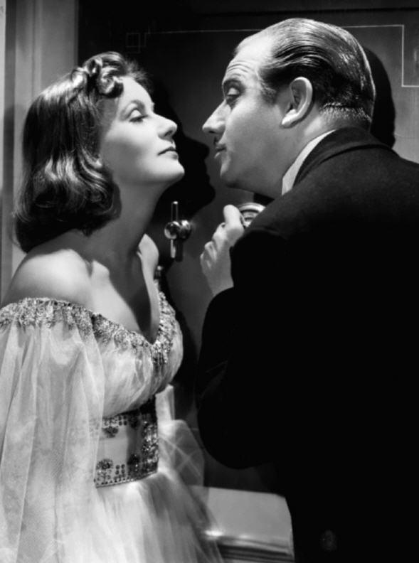 Studio publicity still for film Ninotchka.